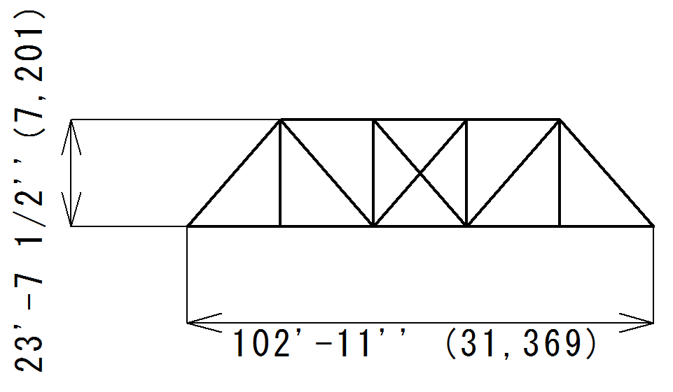 Skelton diagram of double track 100 feet pratt truss designed by Theodore Cooper and Charles Schneider for Imperial Japanese Government Railways.